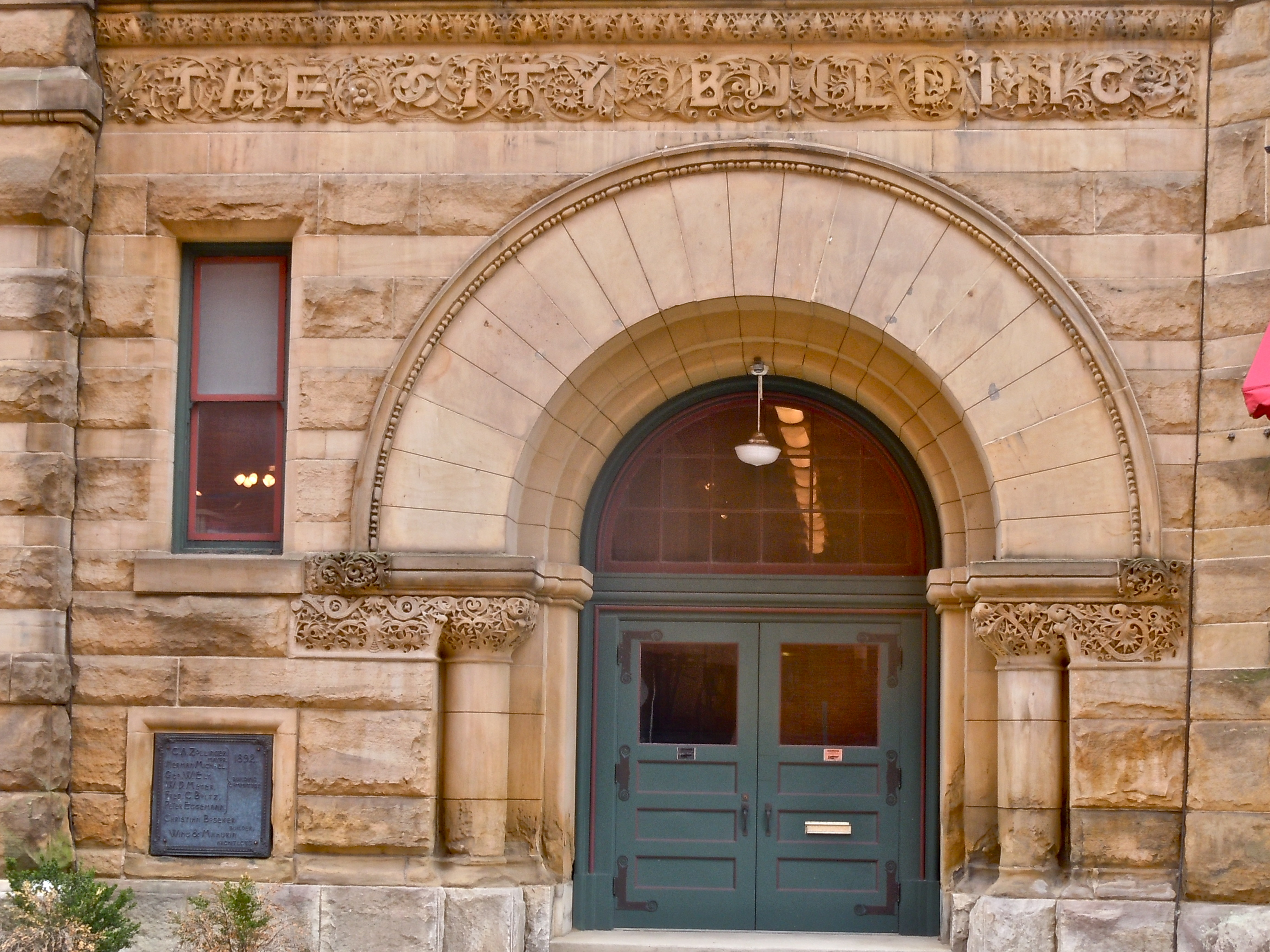 Former Fort Wayne City Hall, now History Center, on the NRHP since June 4, 1973. At 308 E. Berry St. near the Allen County Courthouse, Fort Wayne, Indiana. Built 1892 according to old bronze plaque near door.